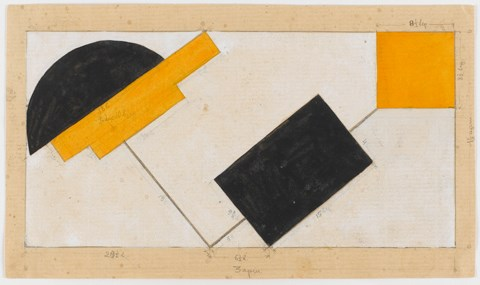 Study for a Wallpainting